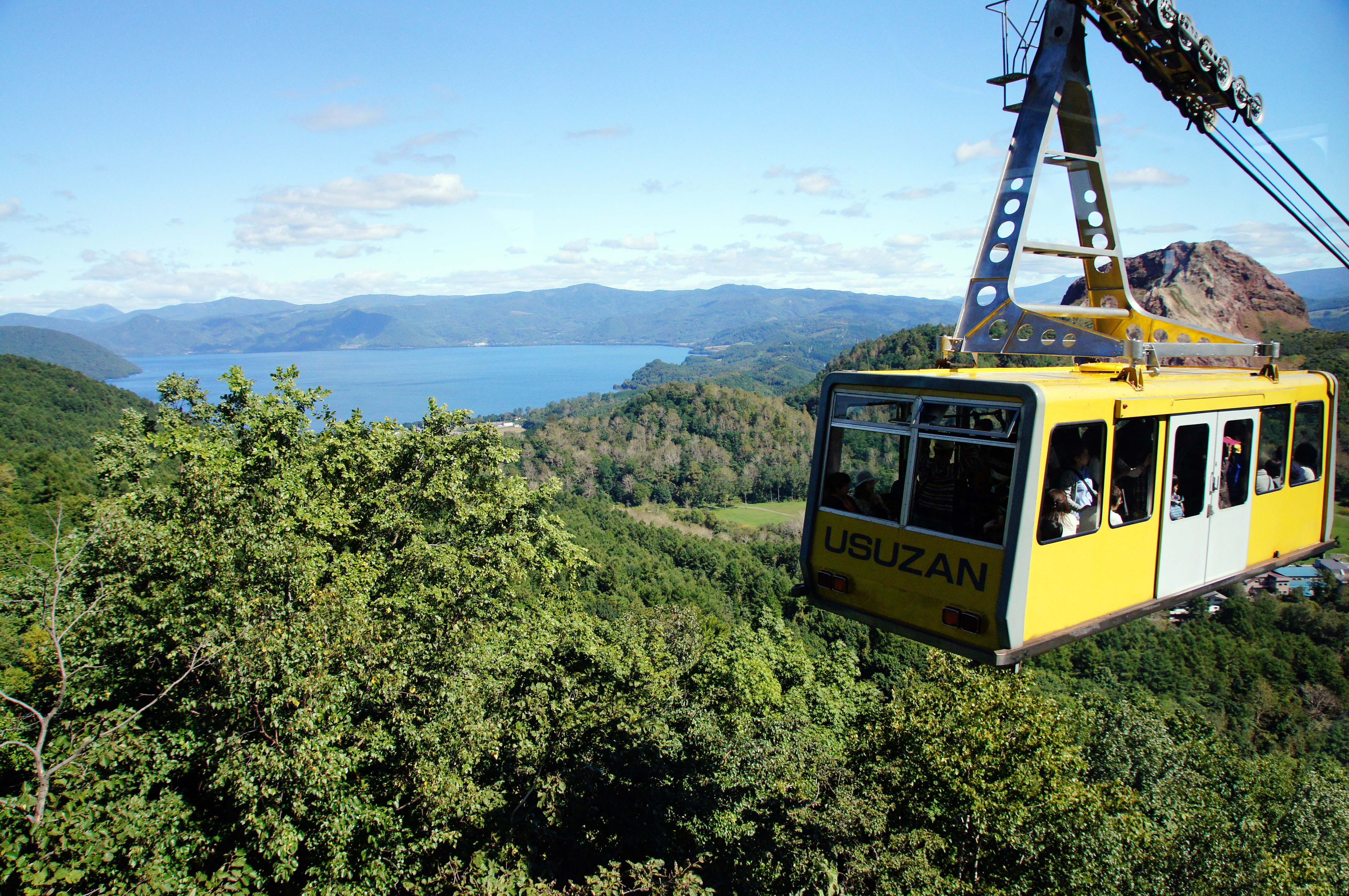 Usuzan Ropeway at Sobetsu, Hokkaido prefecture, Japan.